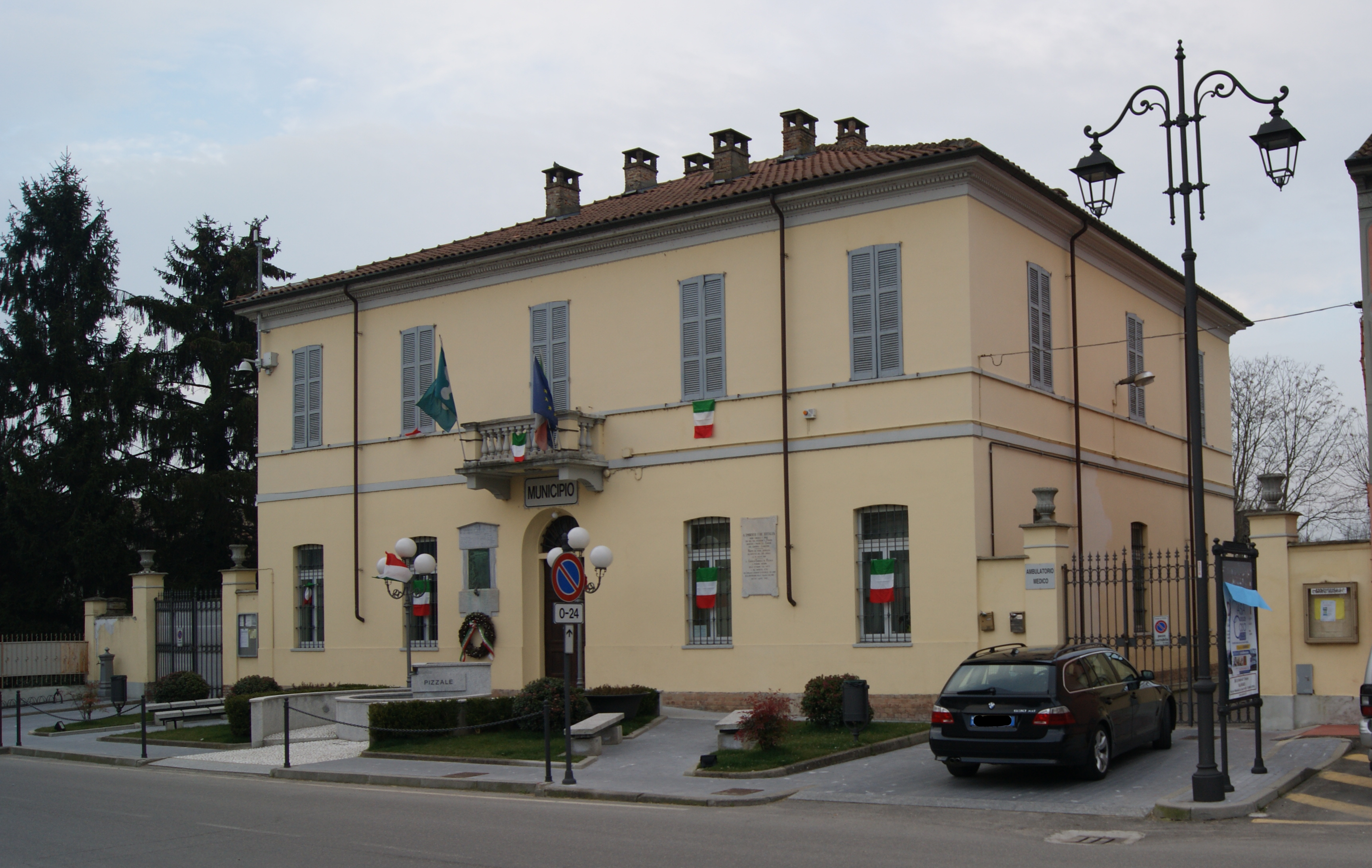 Pizzale (PV)